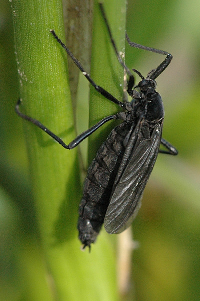 Picture taken in Commanster, Belgian High Ardennes. Species: unknown Nematocera, cf. Simuliidae.